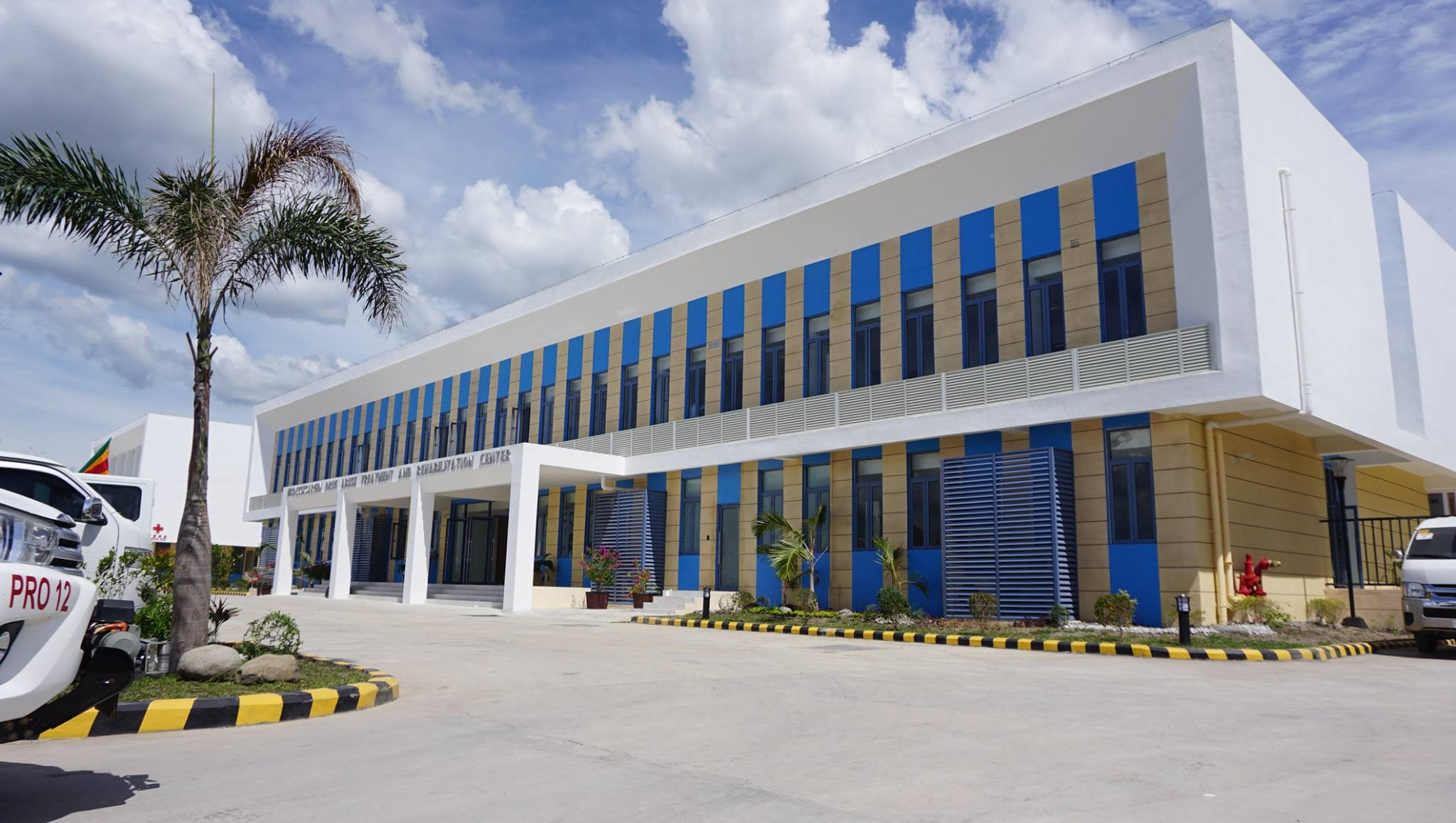 The SOCCSKSARGEN Drug Abuse Treatment and Rehabilitation Center (SDATRC) was built by China and turned over to Department of Health. Owned by Philippine Information Agency Region 12 and it is public domain.